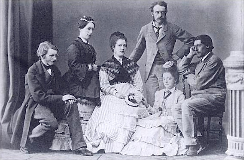 Albert Goodwin, Ruskin, Arthur and Joan Severn with friend in Venice. 1872. Albert Goodwin sits on the right of this group photograph while Ruskin sits at the left and Severn stands behind them. Joan Severn (later Ruskin's heir) sits in the middle. The other two women, a mother and daughter, are friends.